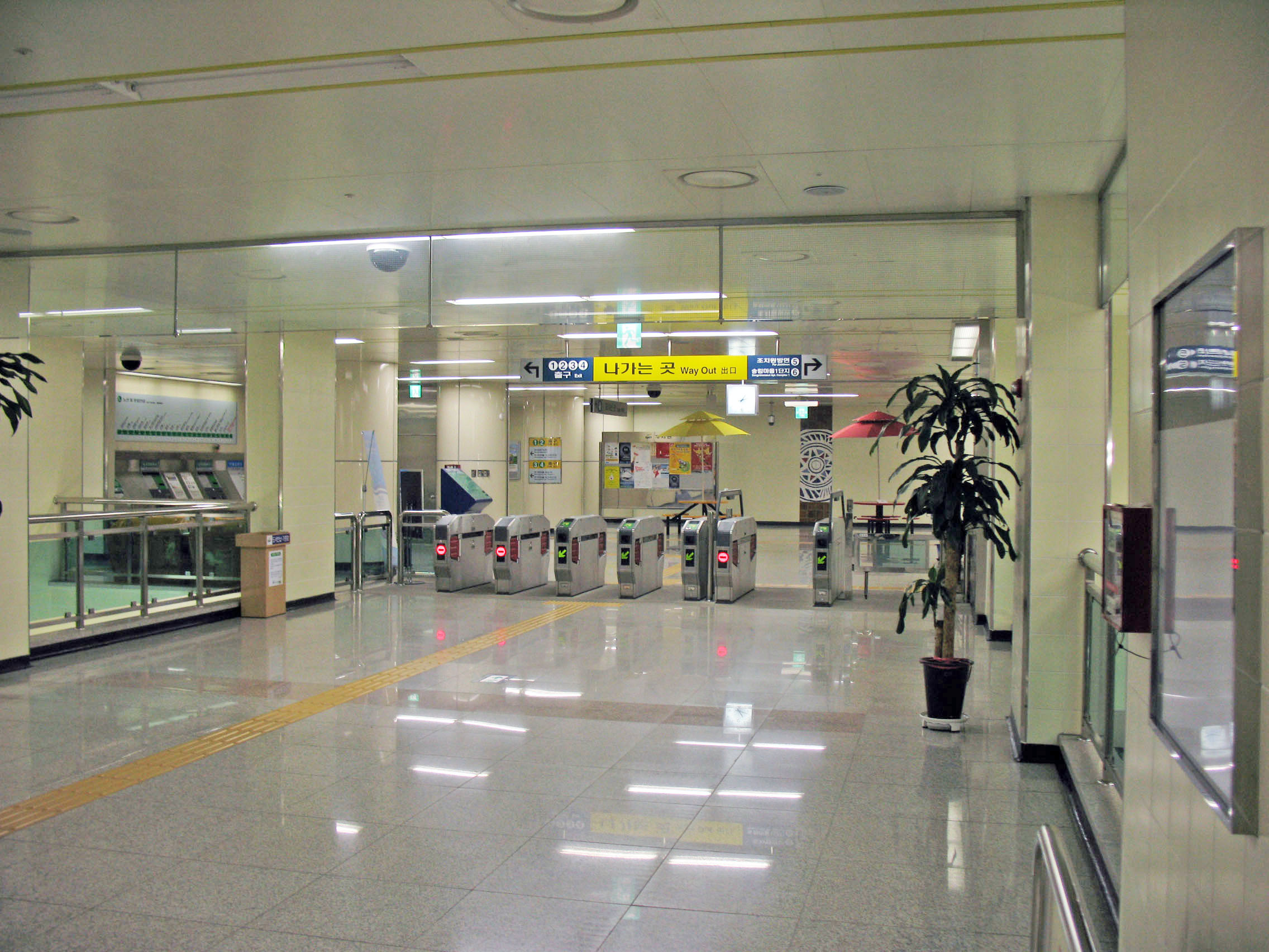 Ticket gate of Daejeon Subway Line 1 Banseok Station.